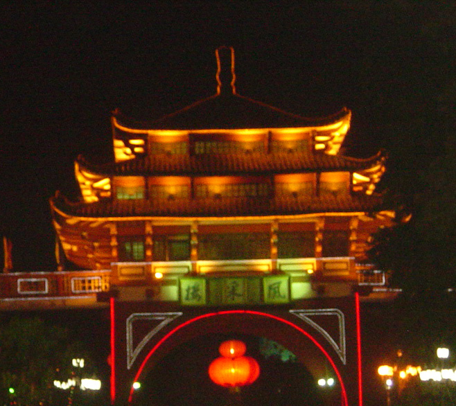 Guangdong gate at night.